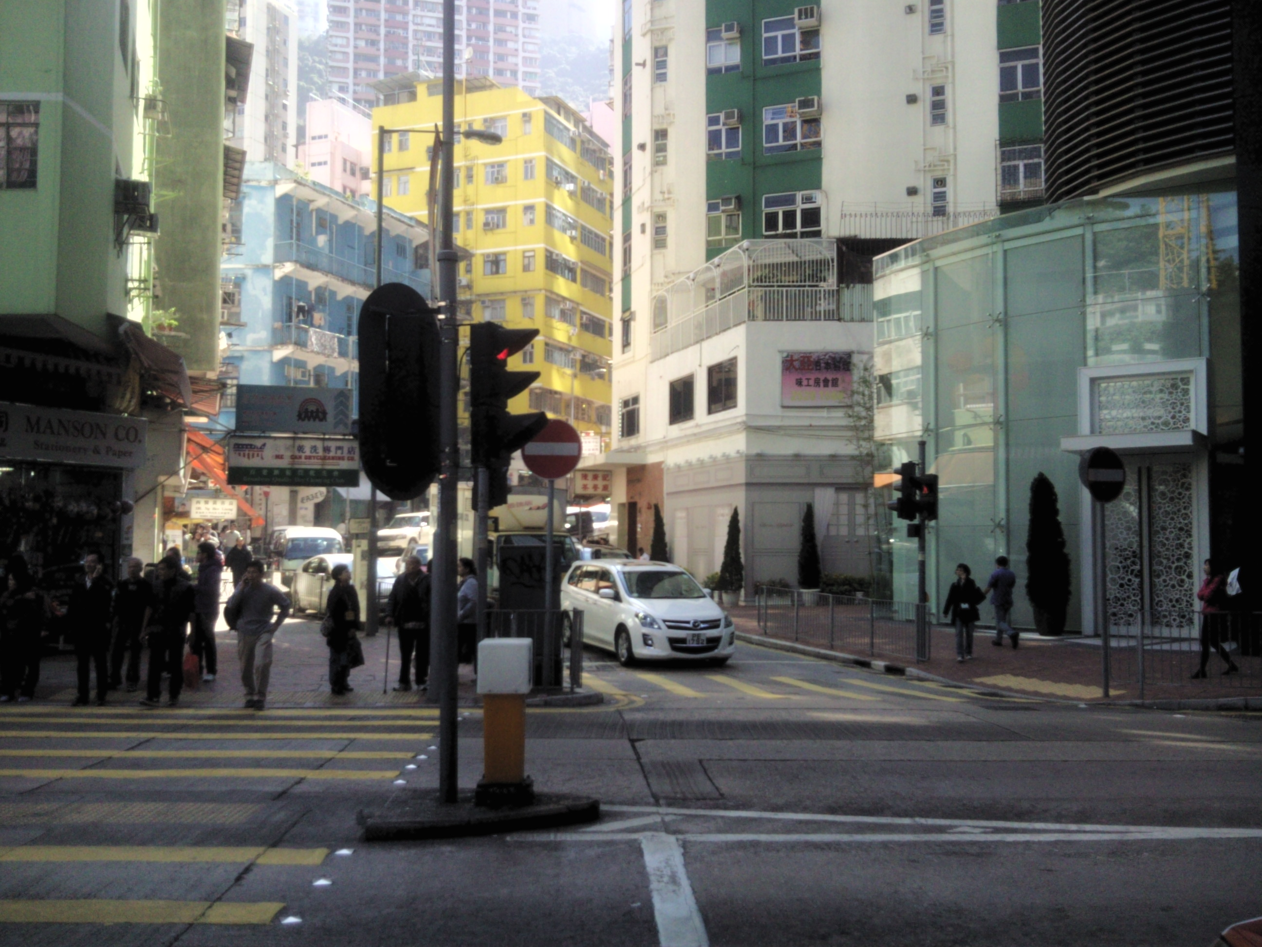 Stone Nullah Lane near Queen's Road East